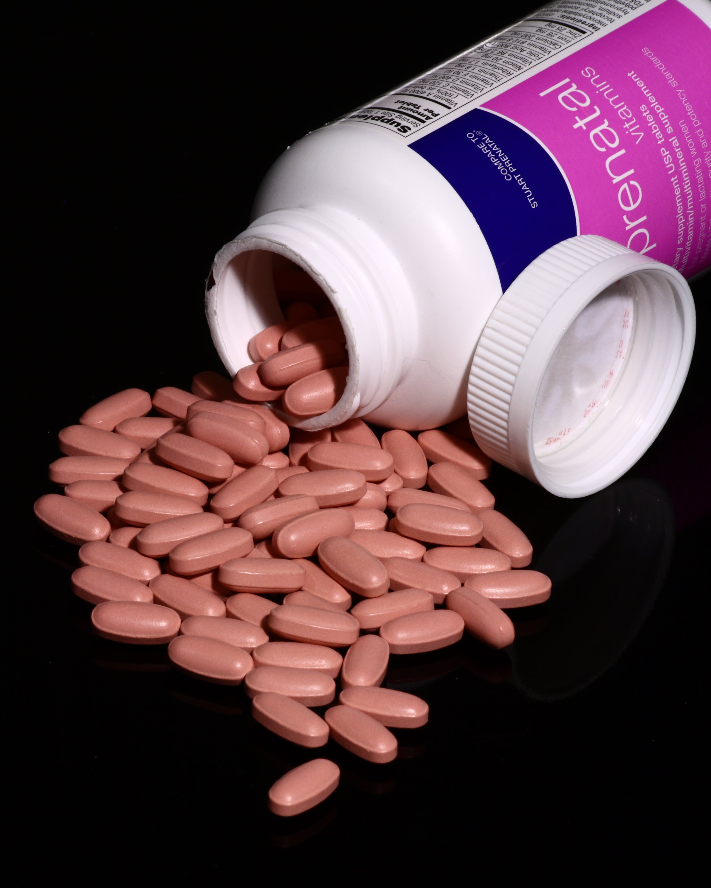 Prenatal vitamins in tablet form, distributed by Target Corporations, made from: calcium carbonate, ascorbic acid, microcrystalline cellulose, ferrous fumarate, gelatin, dl-alpha tocopheryl acetate, zinc oxide, acacia, croscarmellose sodium, niacinamide, stearic acid, dextrin, silicon dioxide, hypromellose, titanium dioxide, magnesium stearate, polyethylene glycol, pyridoxine hydrochloride, beta-carotene, FD&C red #40 lake, thiamin mononitrate, riboflavin, dextrose, lecithin, folic acid, FD&C yellow #6 lake, FD&C blue #2 lake, cholecalciferol, and cyanocobalamin.